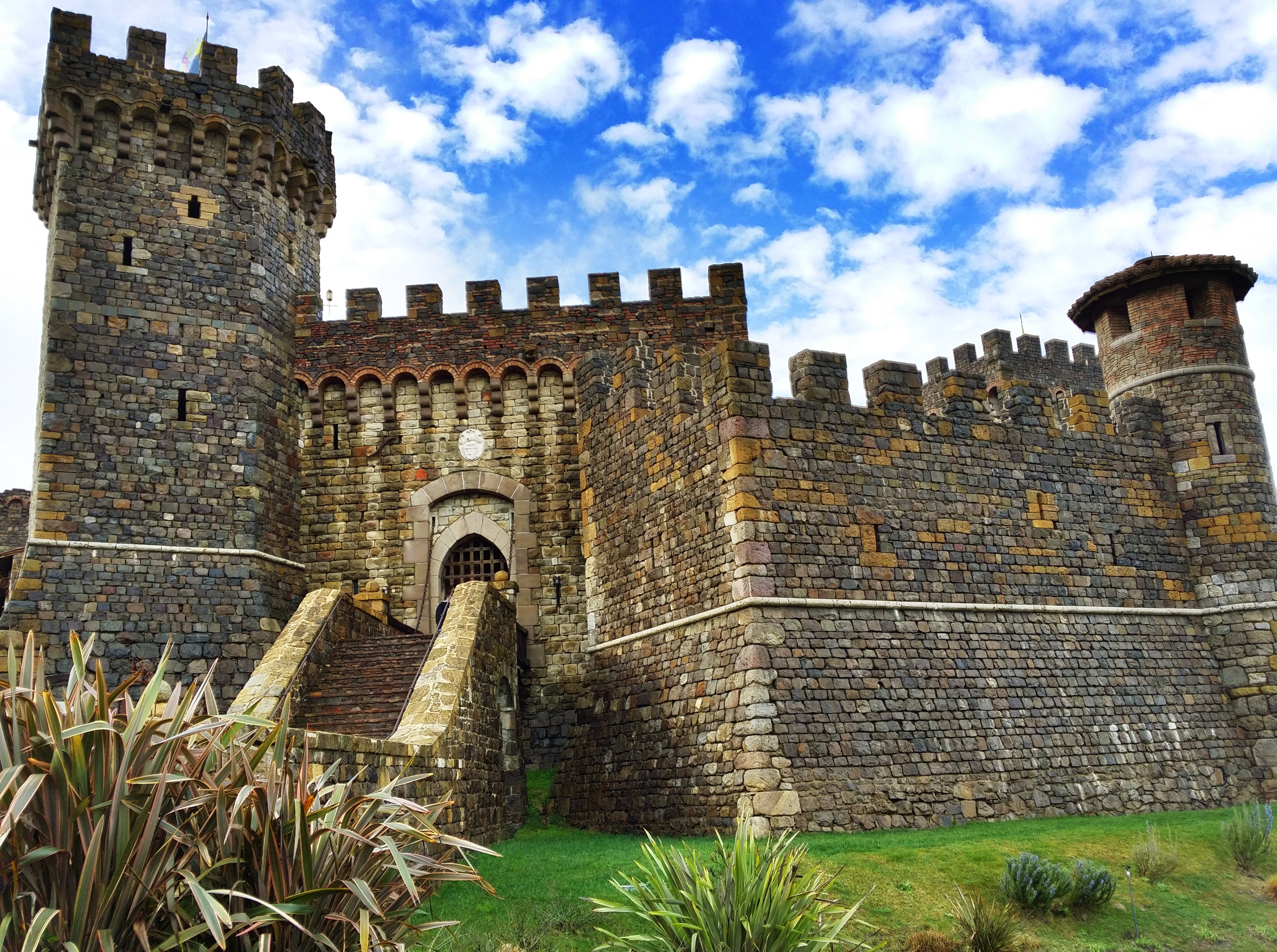 Front entrance to Castello di Amorosa as of 2015.